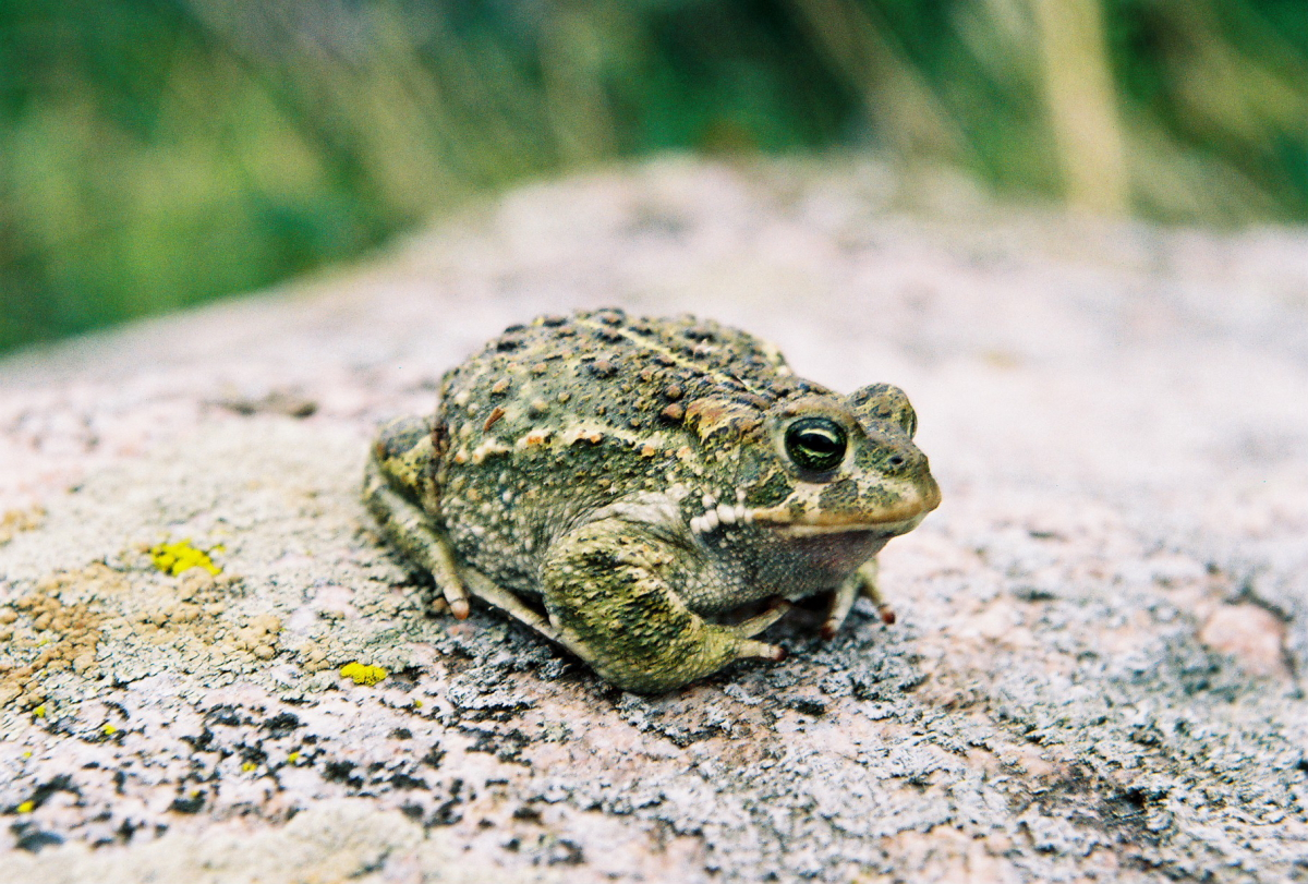 Natterjack toad. Pictured in Estonia.